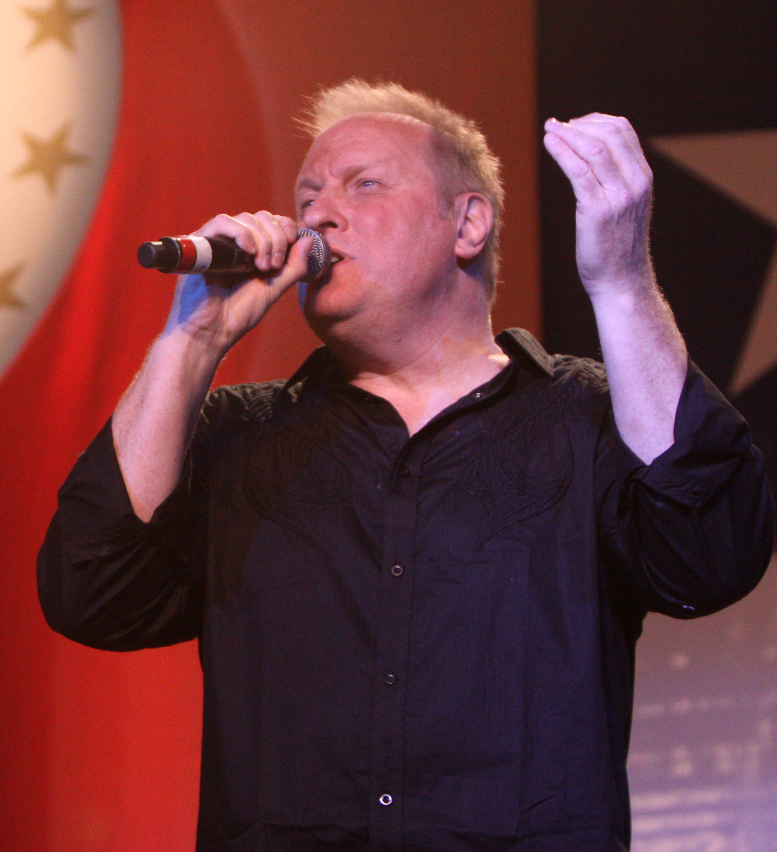 Collin Raye performing at the Values Voter Summit in Washington D.C. on October 7, 2011.